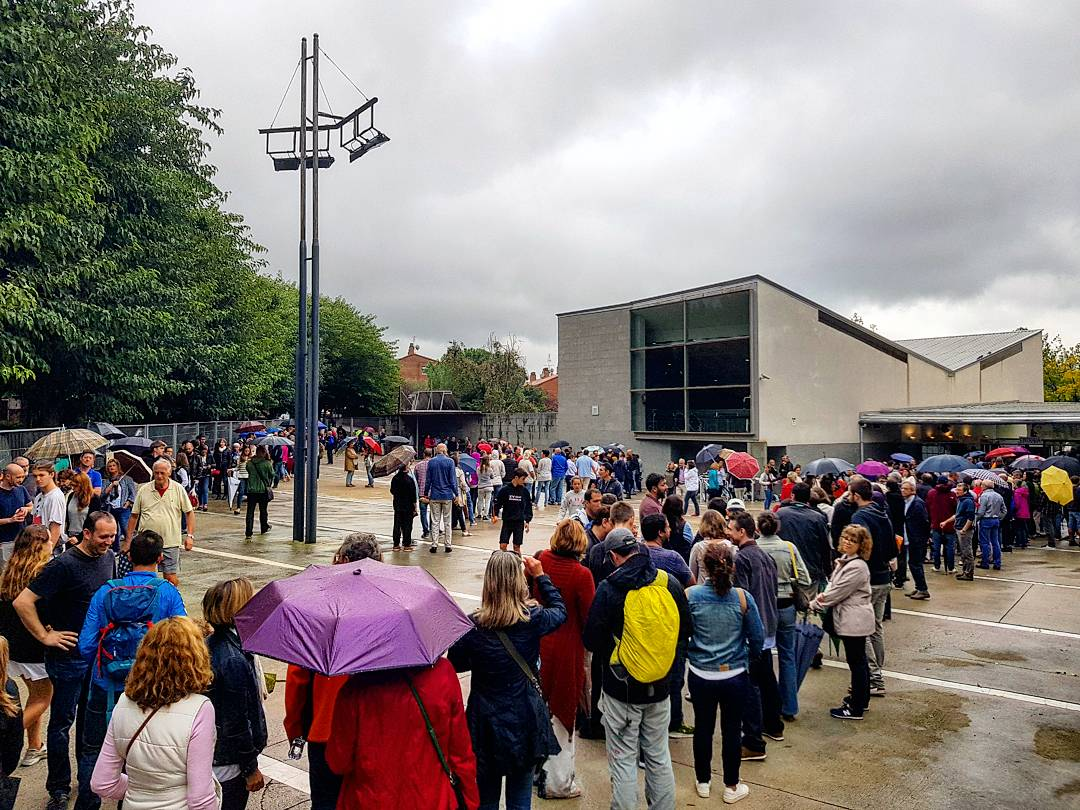 Electoral seat at the Angeleta Ferrer i Sensat institute of Sant Cugat del Vallès in the province of Barcelona. Wikipedia: Catalan independence referendum, 2017See also category: Catalan independence referendum, 2017.